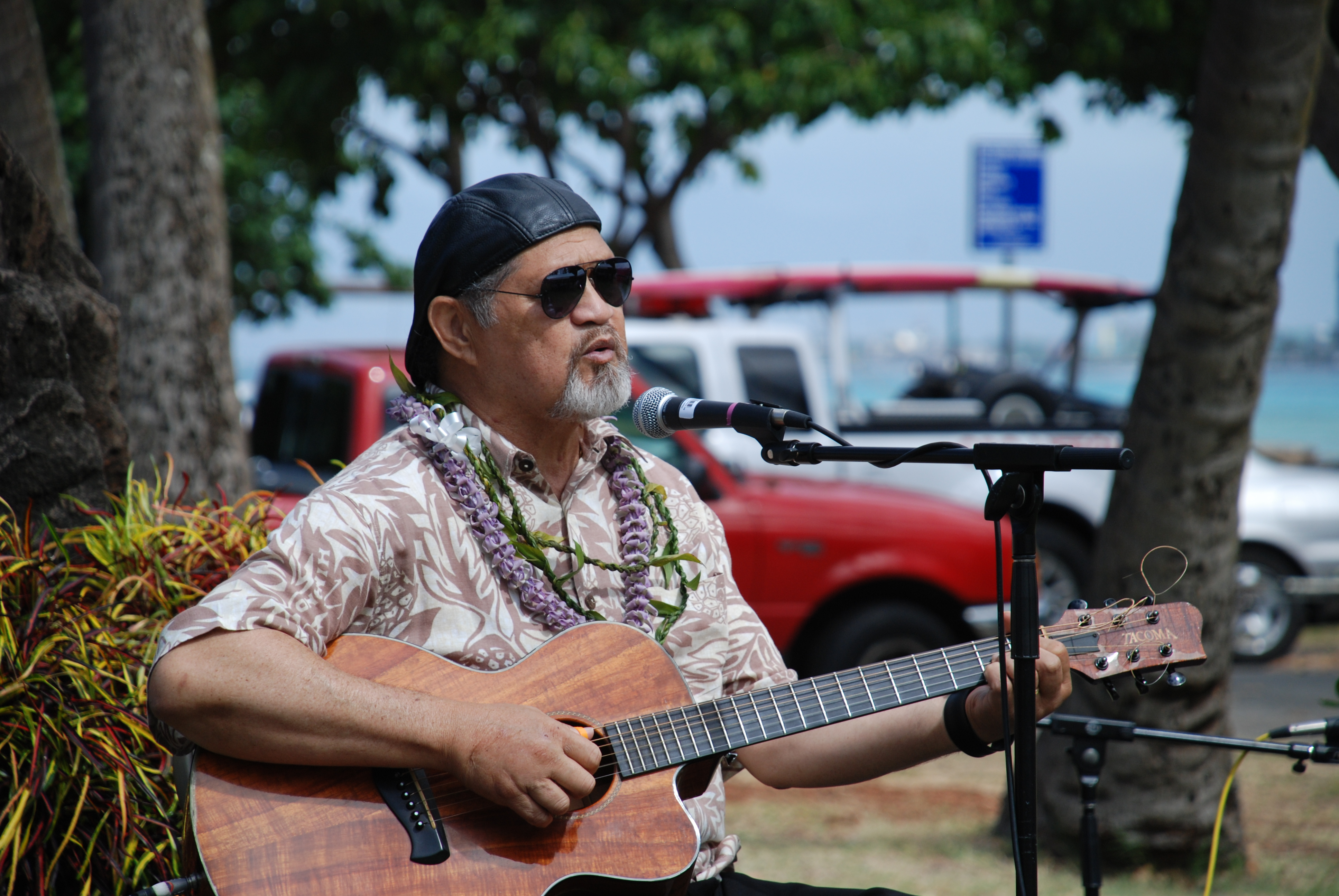 Hawaiian slack-key guitarist Cyril Pahinui playing a Tacoma EKK19c guitar at the Waikiki Natatorium War Memorial in 2012.